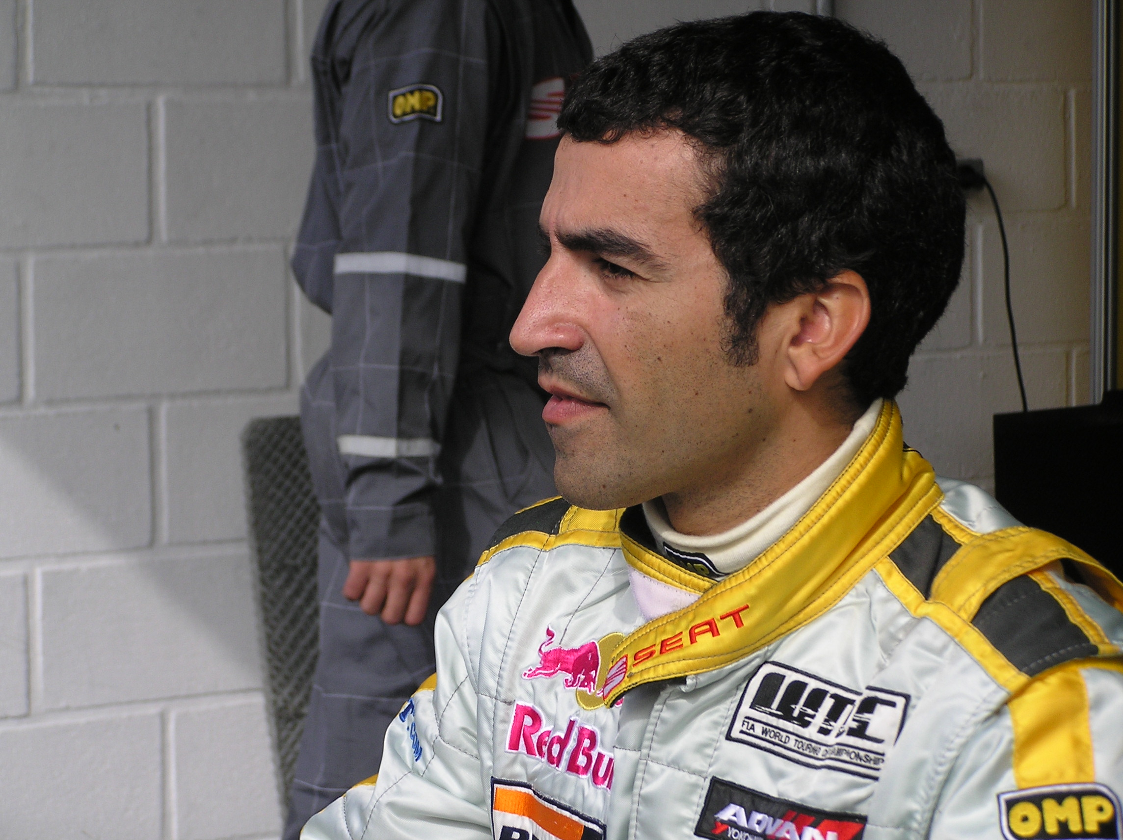 World Touring Car Championship 2006 Curitiba: Jordi Gené (SEAT Sport España)